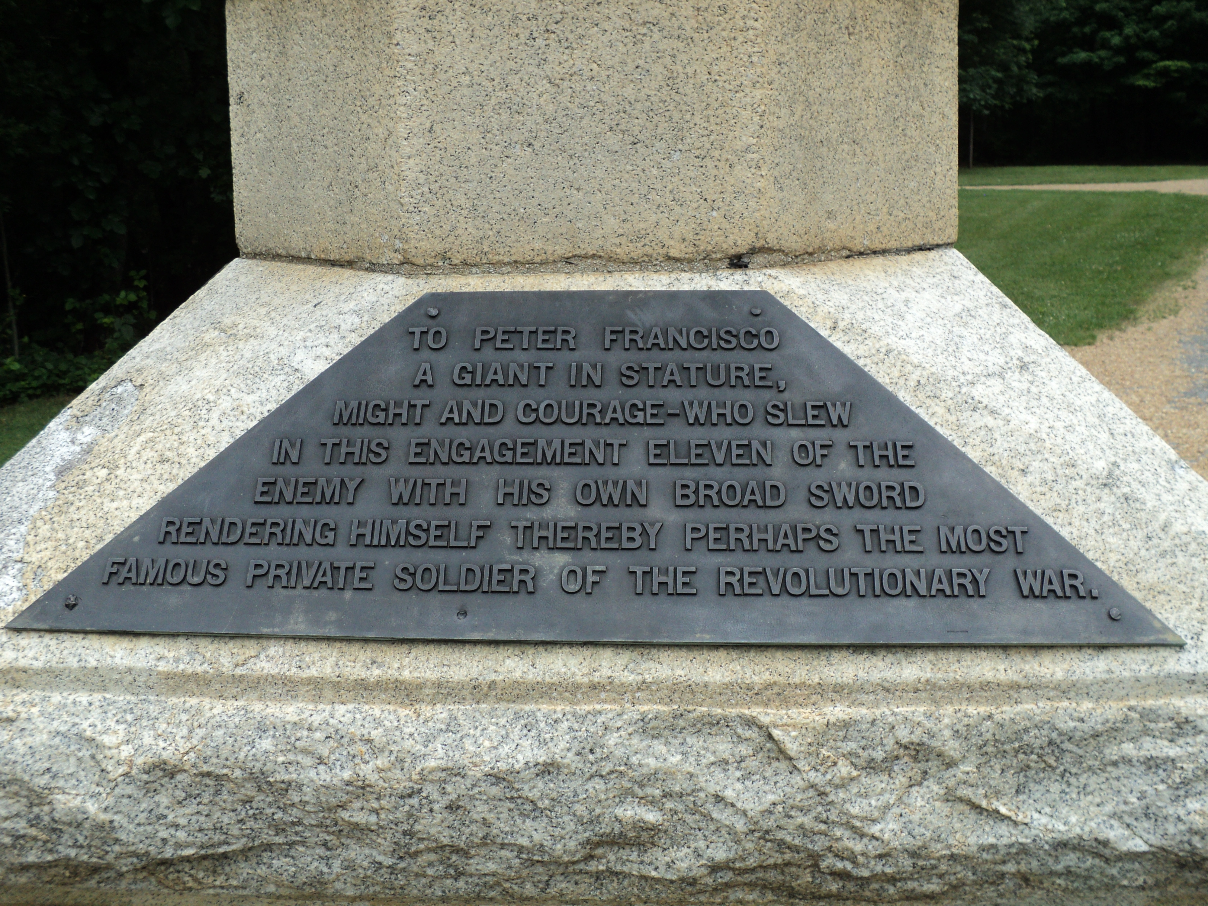 Monument to Continental soldier Peter Francisco at the site of the present-day Guilford Courthouse National Military Park at present-day Greensboro, North Carolina.